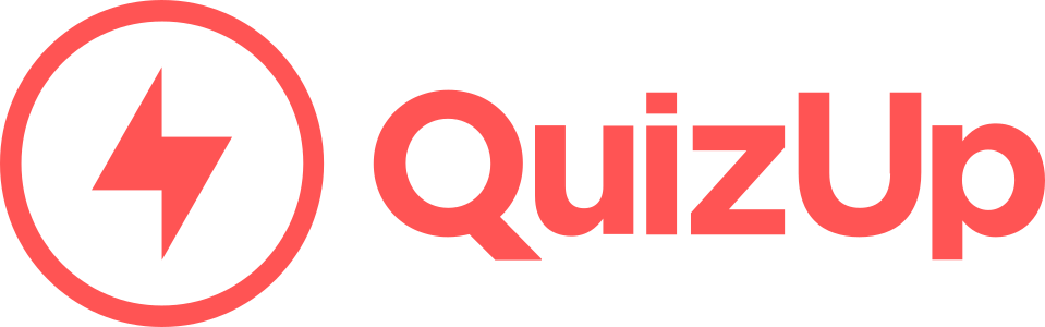 The logo of the mobile game QuizUp.